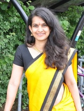 Author Preeti Shenoy Uploaded by Nitya Prakash